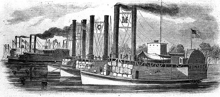 "Colonel Ellet's Ram Fleet on the Mississippi". Ships in the foreground are: Monarch (letter "M" between stacks), Queen of the West (with letter "Q") and Lioness (letter "L"). In the left background are: Switzerland (with letter "S" on paddlebox), Samson and Lancaster. Note cotton bales stacked on deck to protect boilers.